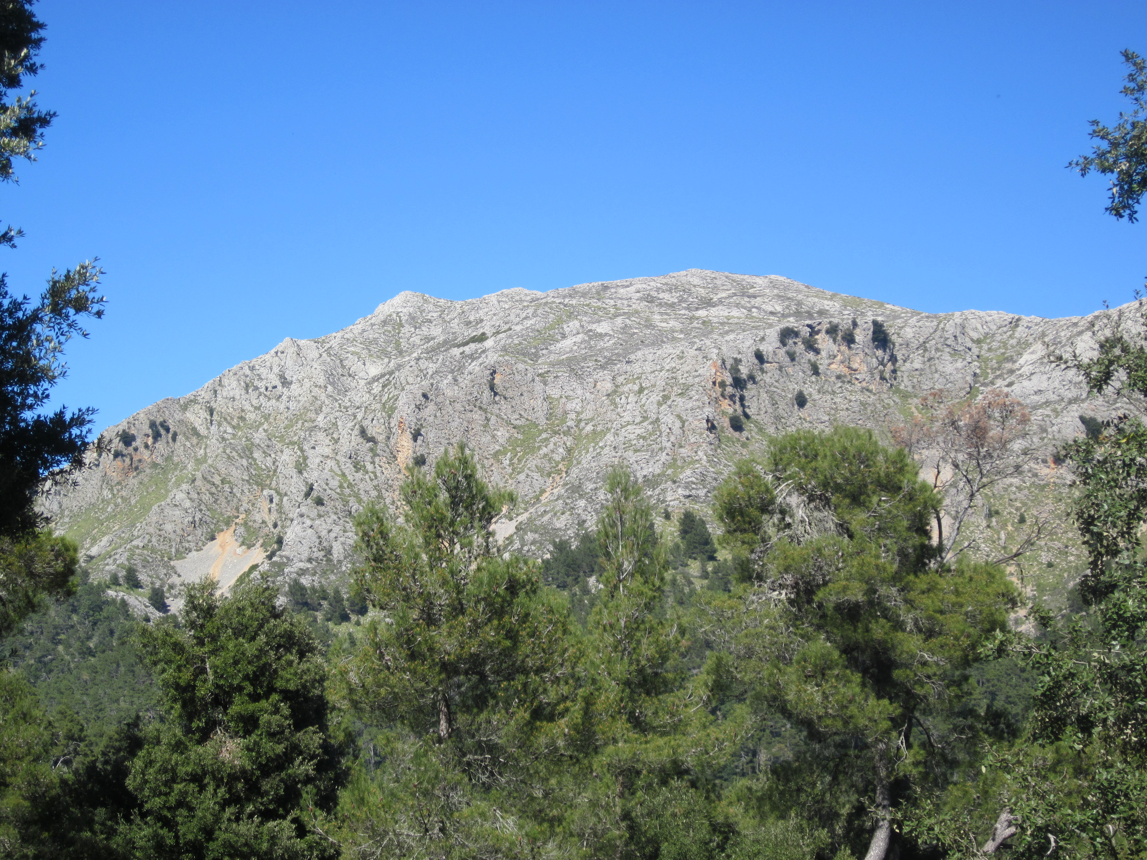 Puig Tomir (1103 m), mountain in the Serra de Tramuntana mountains near Lluc (Mallorca, Spain). View from the road between Coll Pelat and Coll des Pedregaret.